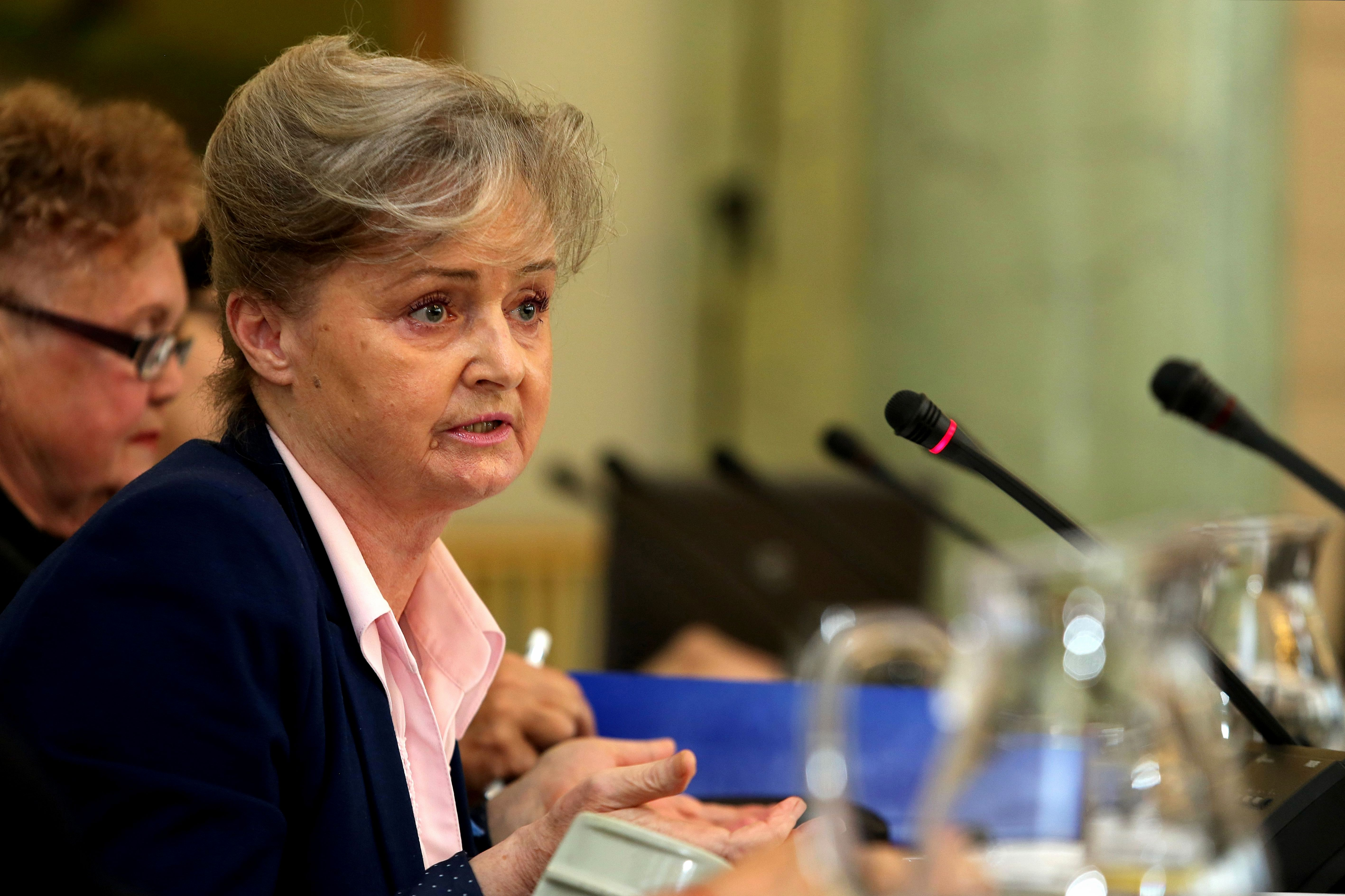 Grażyna Staniszewska. 4th seminar "Archives of 1989-1991 breakthorough" in the Presidential Palace in Warsaw